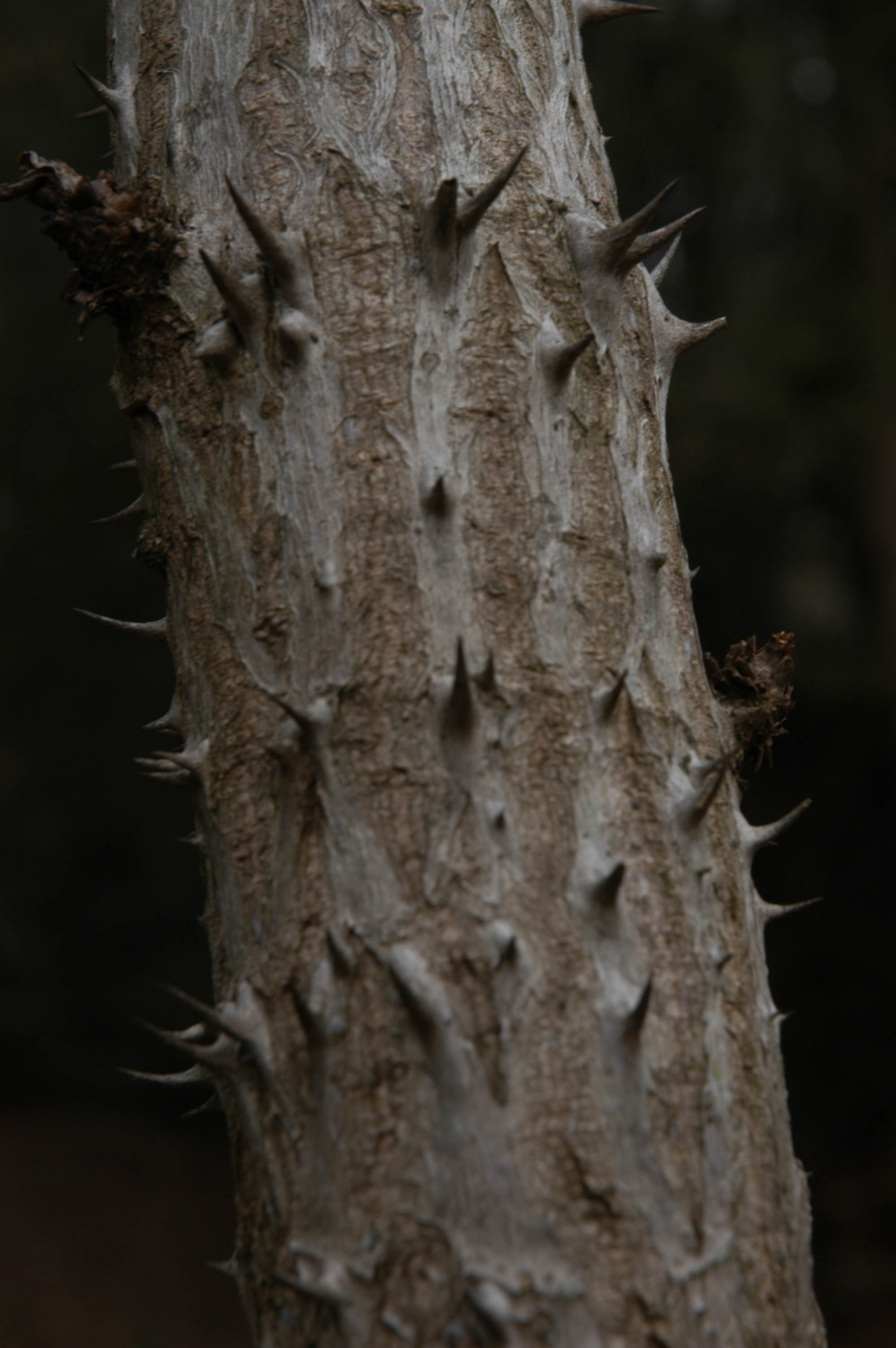 Aralia spinosa in winter at the Asheville Botanical Gardens in Asheville, North Carolina.